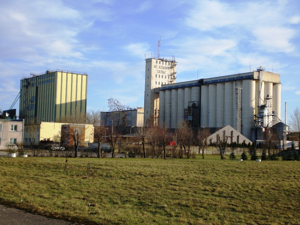 AB "Kėdainių Grūdai" crops factory in Kedainiai